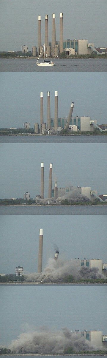 Author: Vaughan Weather